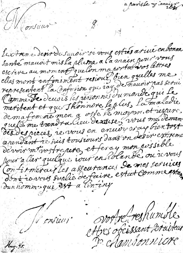 Jacques Champion de Chambonnières's letter to Christiaan Huygens, dated 8 January 1656. Huygens has just returned to The Hague, and Chambonnières expresses, among other things, his interest in making a journey to the north.